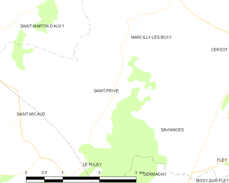 Map of French municipality